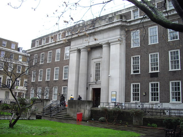 Entrance to Friends House Euston Road Friends House is the administrative centre of Quakers in Britain.